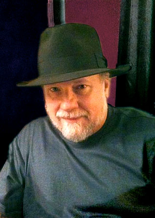 Author Mark Tiedemann, at Archon 35 in St. Louis, 2011